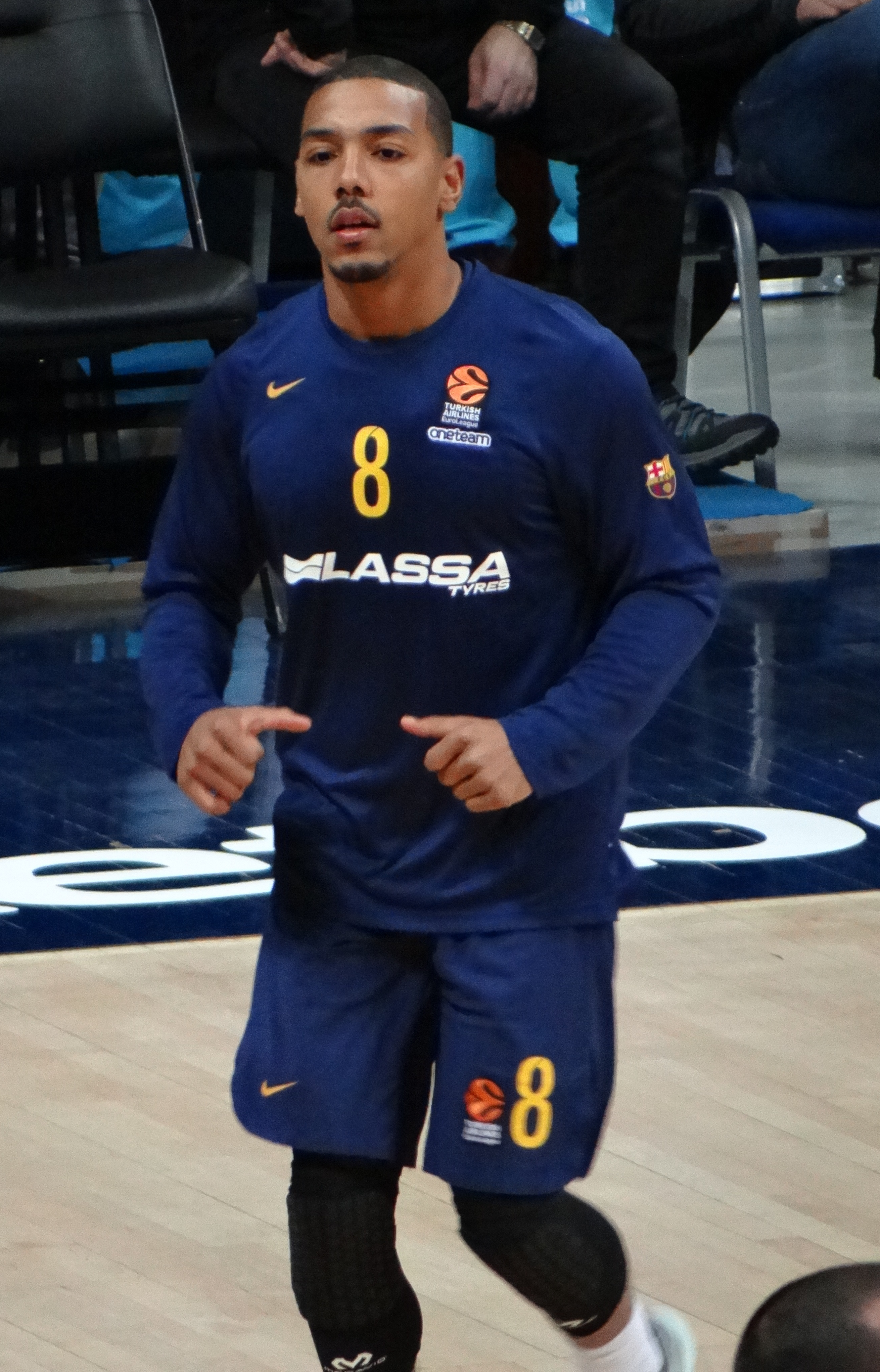 Phil Pressey 8 FC Barcelona Bàsquet 20180126